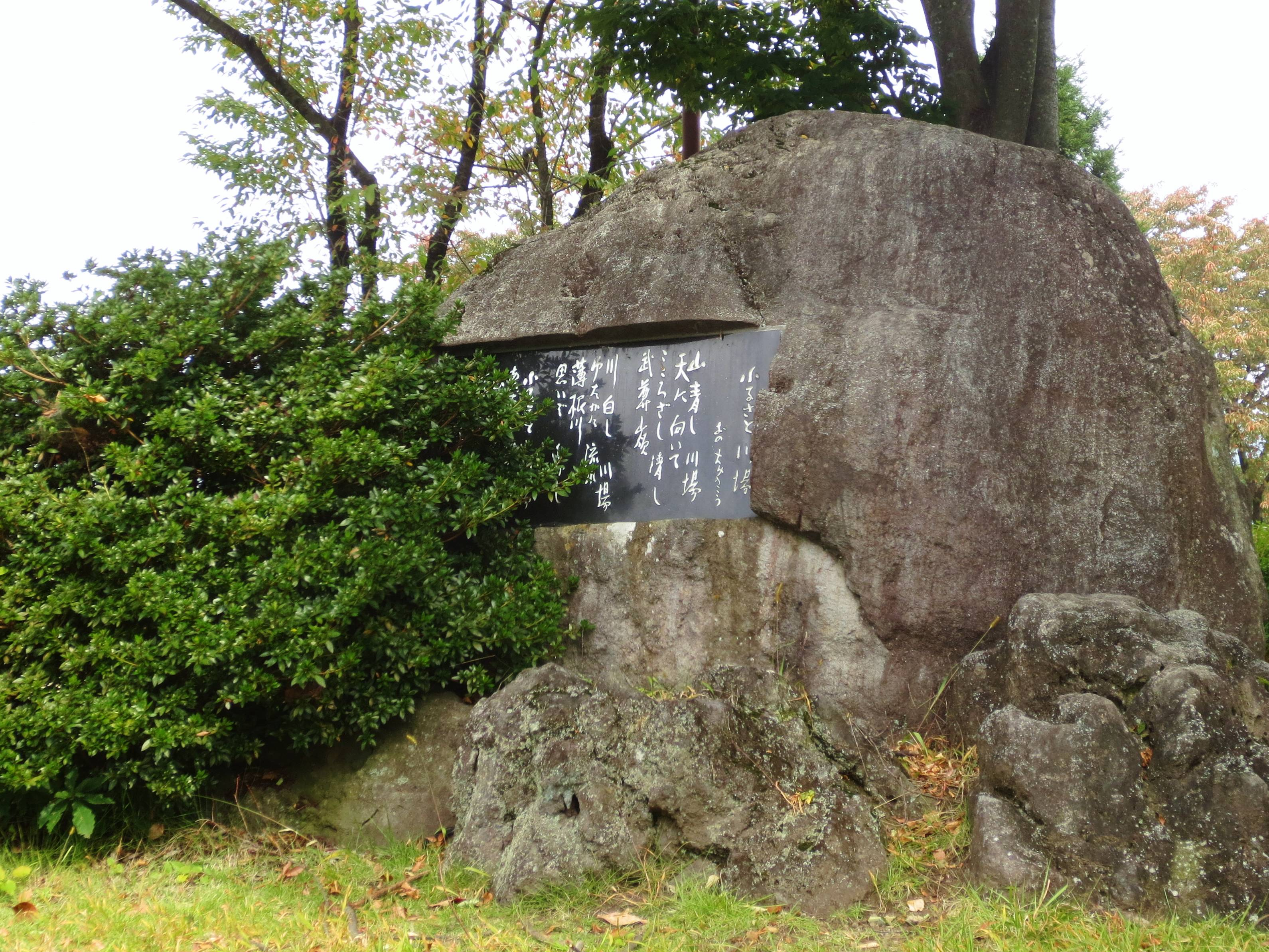 Ono Chūkō monument (Museum of History and Folklore of Kawaba).